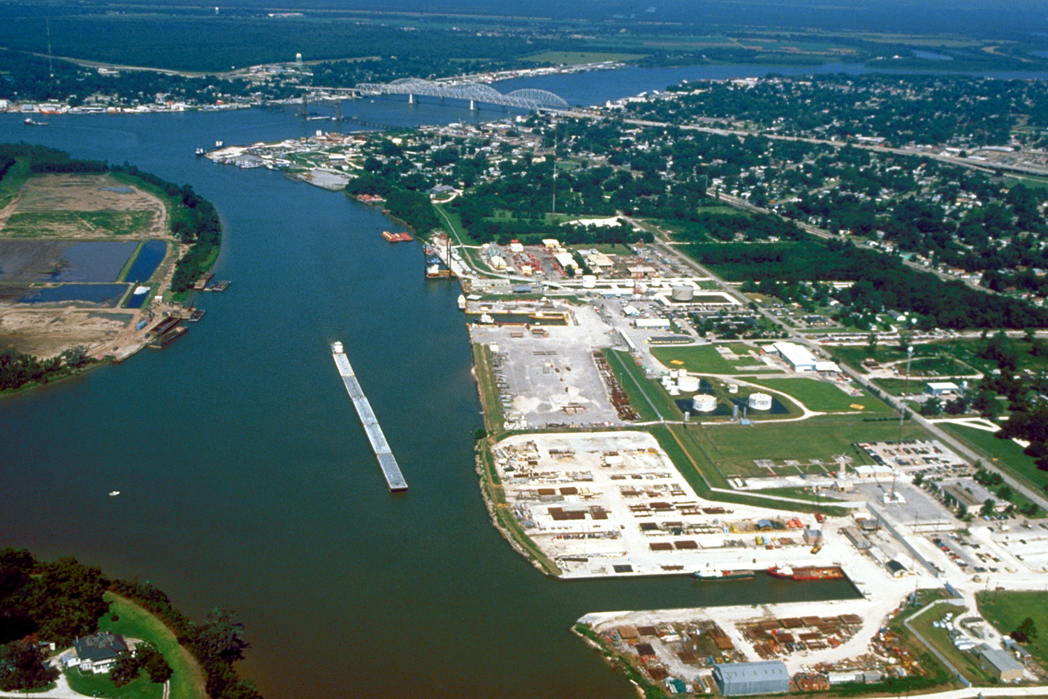 Aerial view of the port of Morgan City, Louisiana, USA. The Atchafalaya River flows from right to left in the background. These waterways are part of the Gulf Intracoastal Waterway. View is to the west.